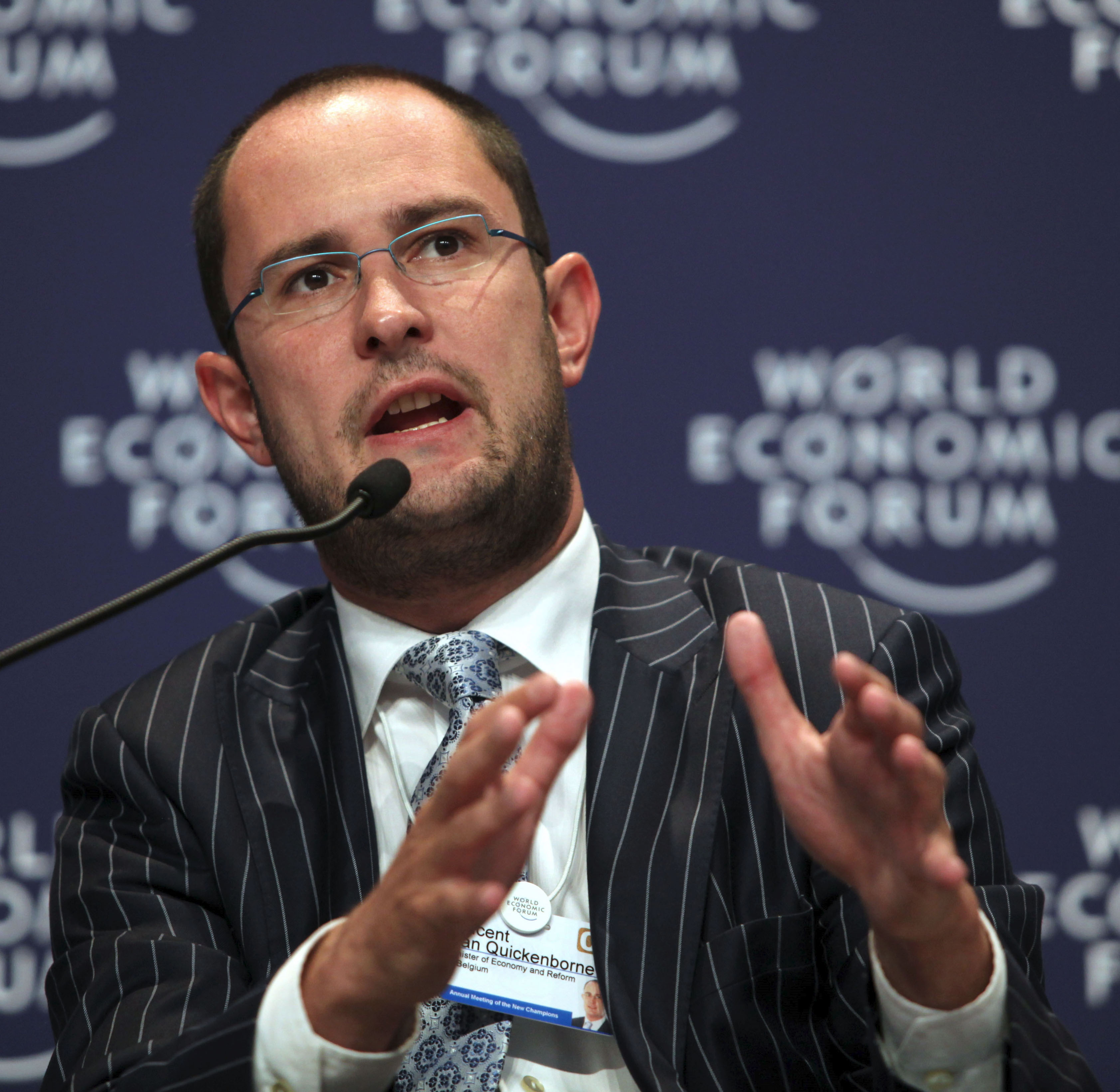 DALIAN/CHINA, 11SEPT09 - Vincent Van Quickenborne, Minister of Economy and Reform of Belgium, speaks during the Recalibrating Global Demand session at The World Economic Forum Annual Meeting of the New Champions in Dalian, China 10-12 September 2009.